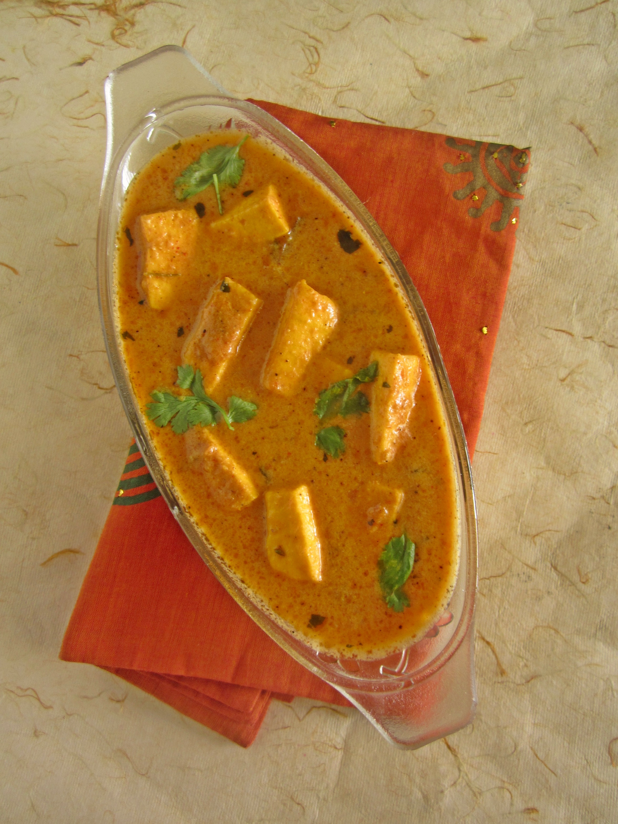 Paneer makhani Toasted paneer in a sweet, cashew based sauce